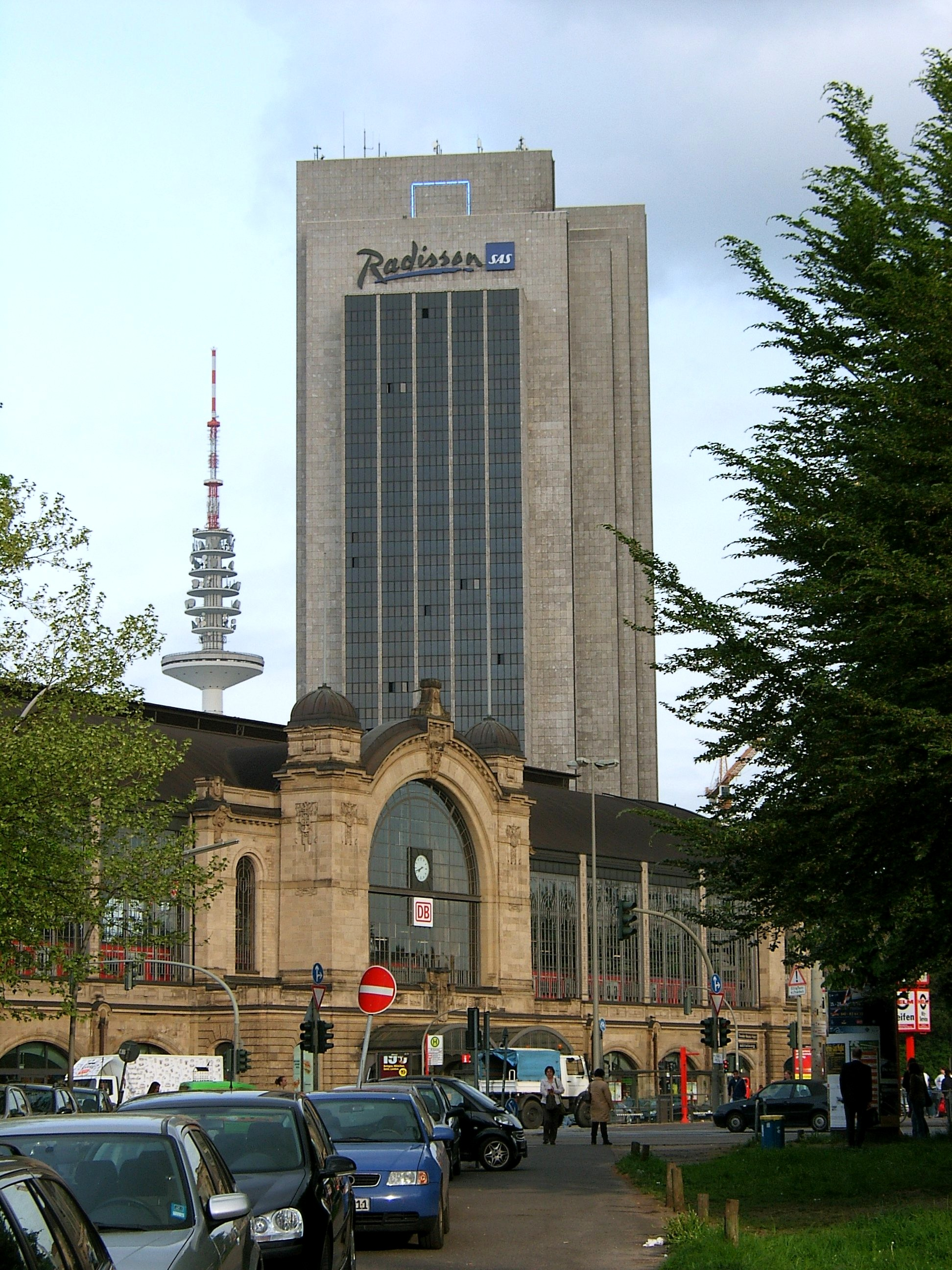 Dammtor railway station in Rotherbaum. In the background, the Raddison-SAS hotel can be seen.